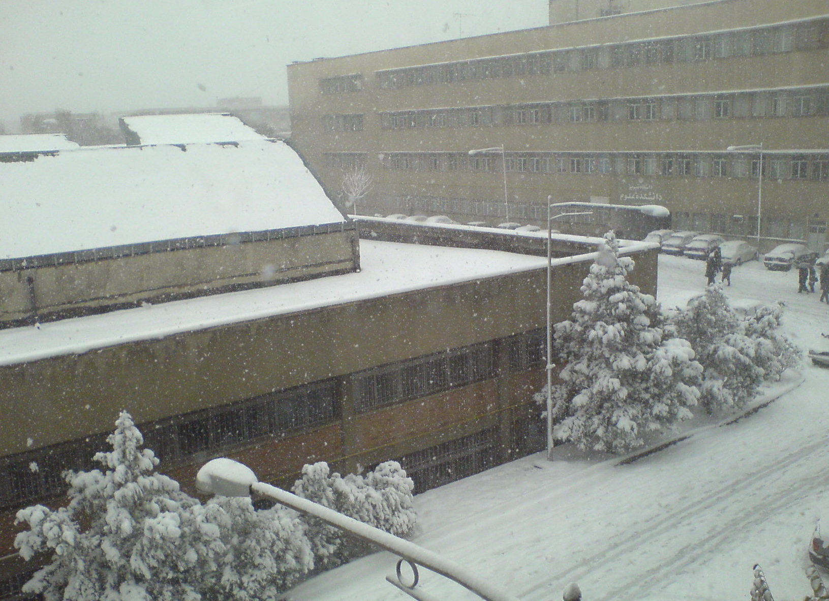 University of Tabriz, Science Faculty, Iran, Tabriz.